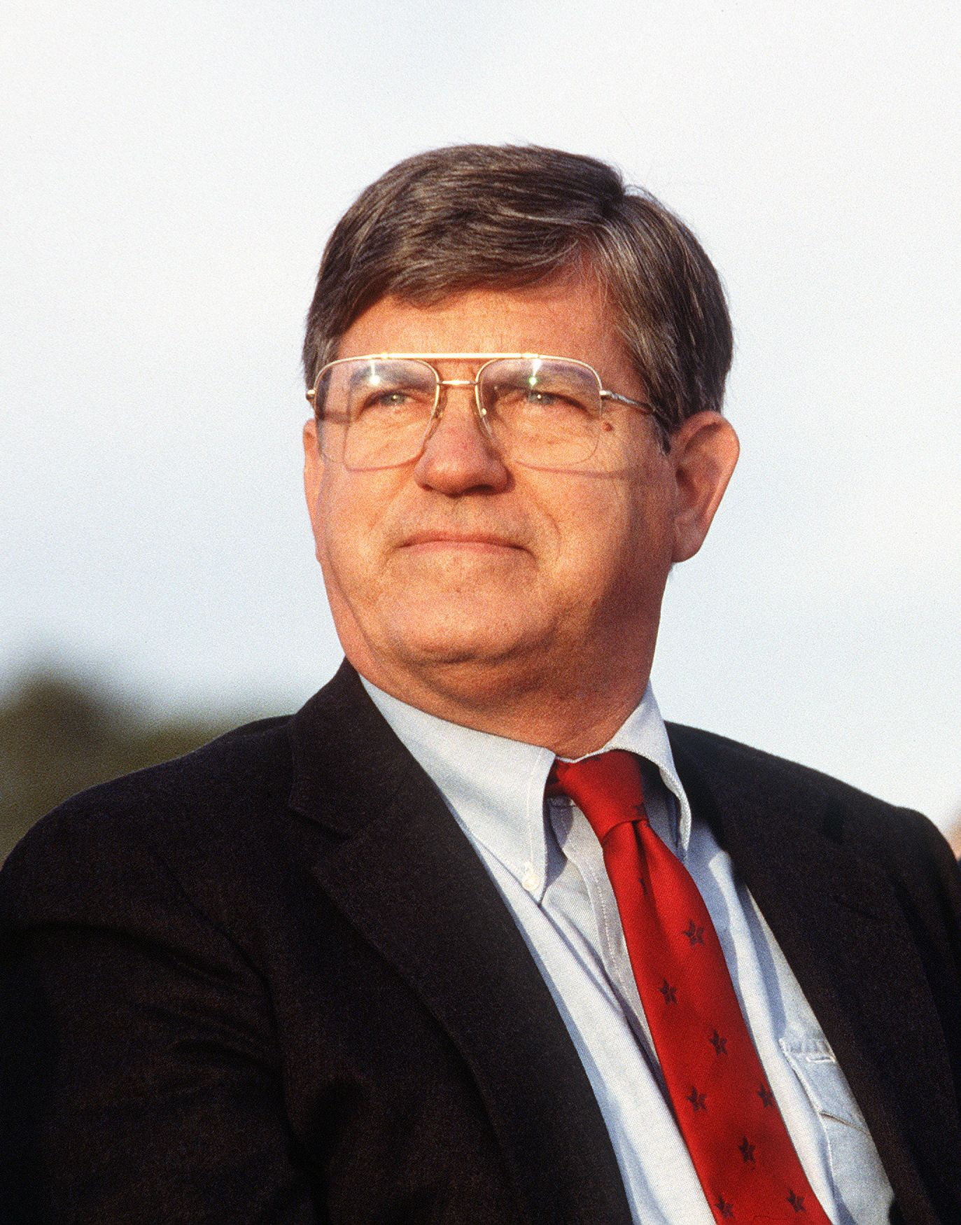 "James G. Martin, governor of North Carolina, and Colonel (COL) Rathje, commander of the 68th Air Refueling Wing, watch the arrival of the 4th Tactical Fighter Wing's (4th TFW's) first F-15E Eagle aircraft. The 4th TFW is the first operational Air Force unit to receive the F-15E. Location: SEYMOUR JOHNSON AIR FORCE BASE, NORTH CAROLINA (NC) UNITED STATES OF AMERICA (USA)"